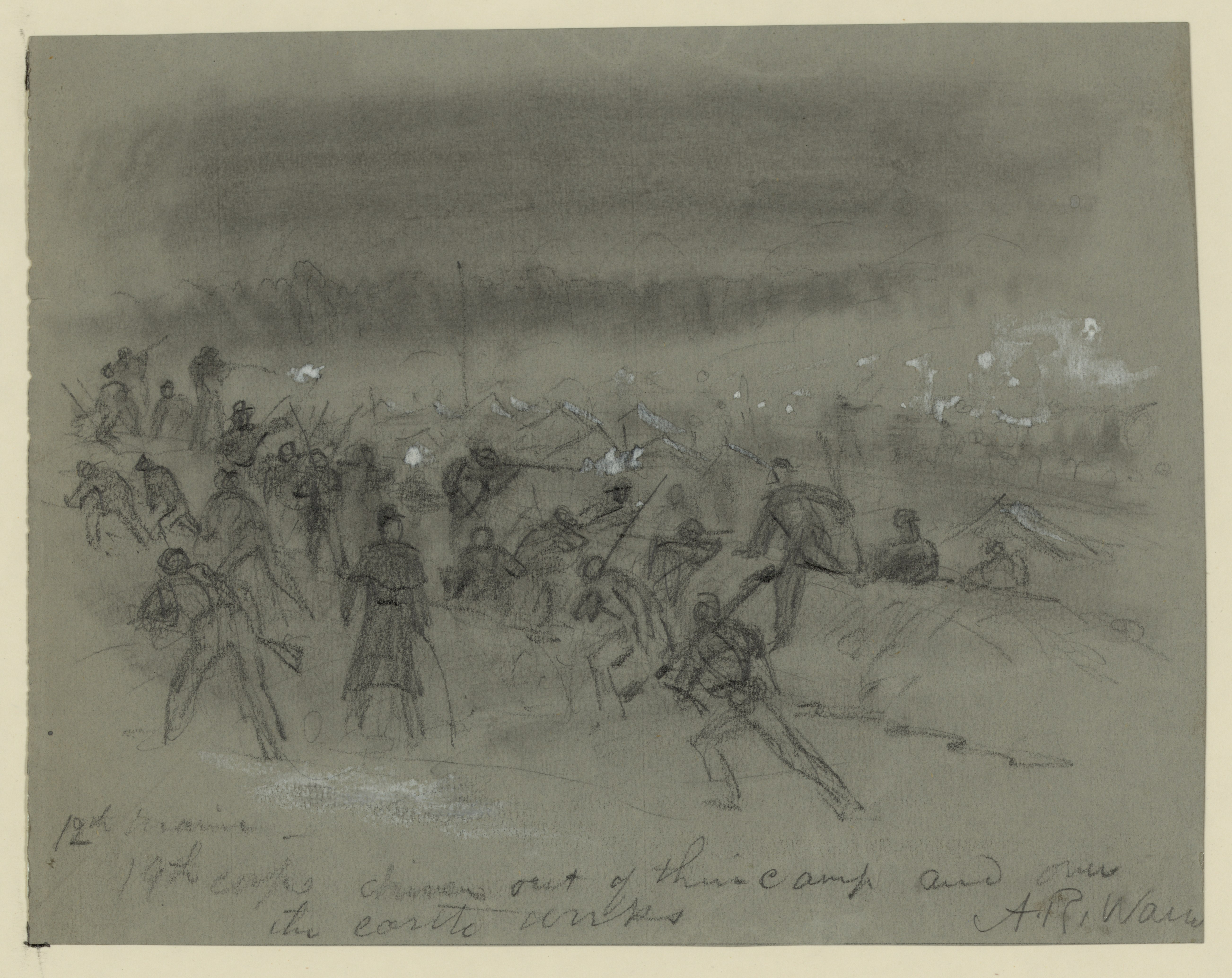 Title: 12th Maine--19th corps driven out of their camp and over the earth works Abstract/medium: 1 drawing on blue-gray paper : pencil and Chinese white ; 16.5 x 21.2 cm. (sheet). on verso: The 12th taken in rear had to desert their camp and jump over and fight free from the outer side of their breastworks till pressed away. Dated to participation of 12th Maine in Inscribed on verso: The 12th taken in rear had to desert their camp and jump over and fight free from the outer side of their breastworks till pressed away. Dated to participation of 12th Maine in Army of the Shenandoah.